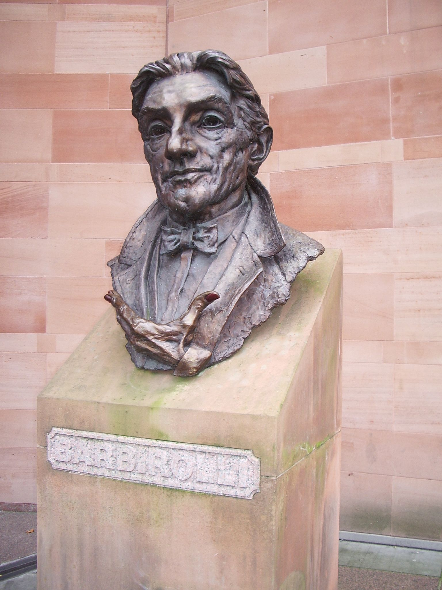 This bust of Sir John Barbirolli by Byron Howard stands outside the Bridgewater Hall in Manchester.